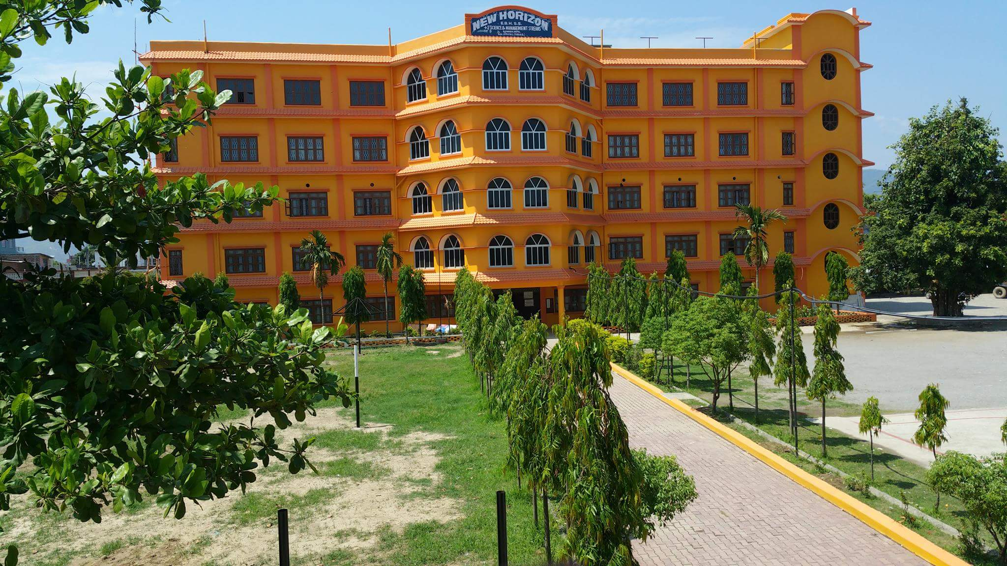 This is the view of New Horizon College, Butwal Drivertole Rupandehi Nepal..